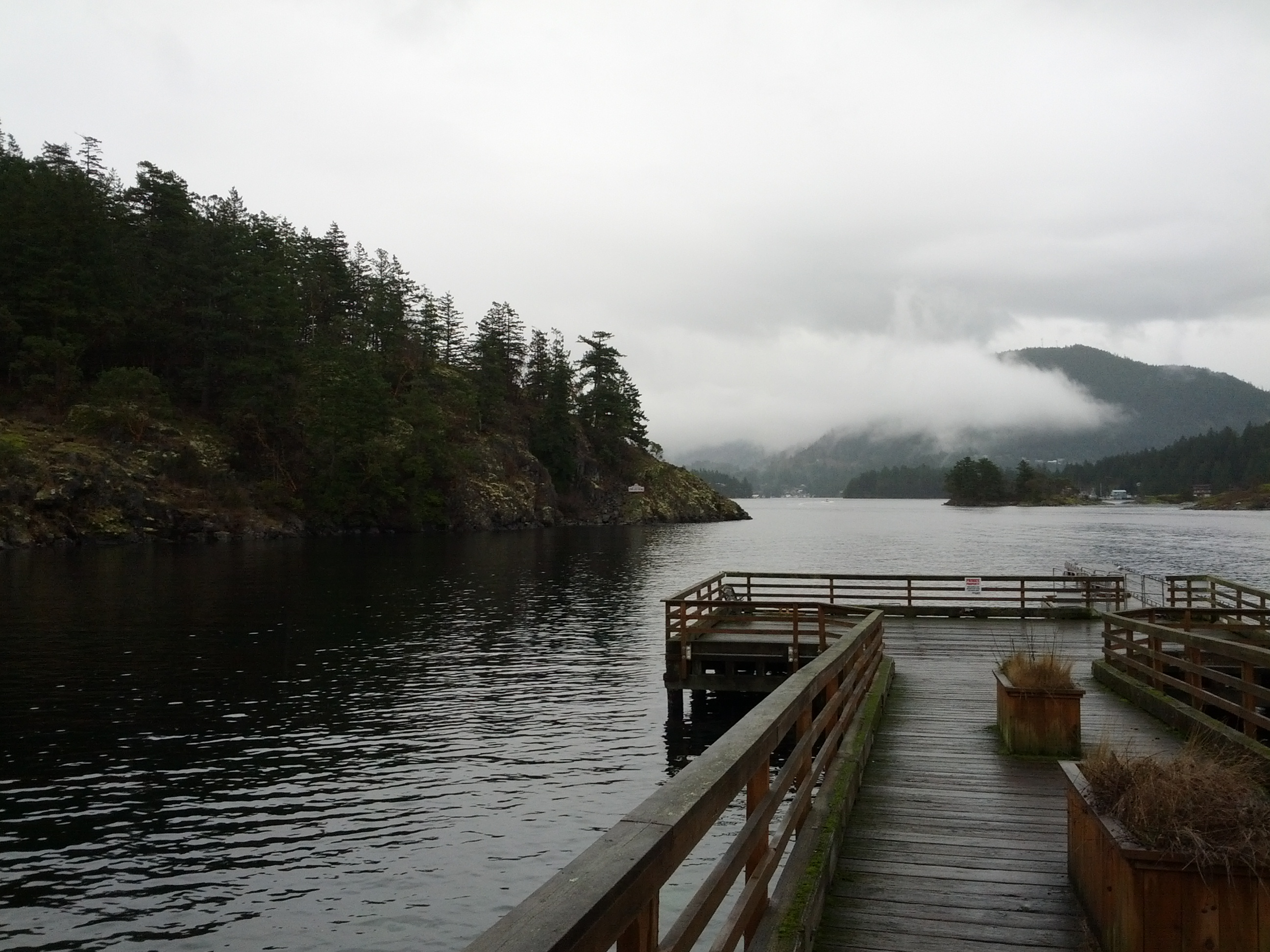 View of a portion of Pender Harbour from the shoreline at Irvines Landing